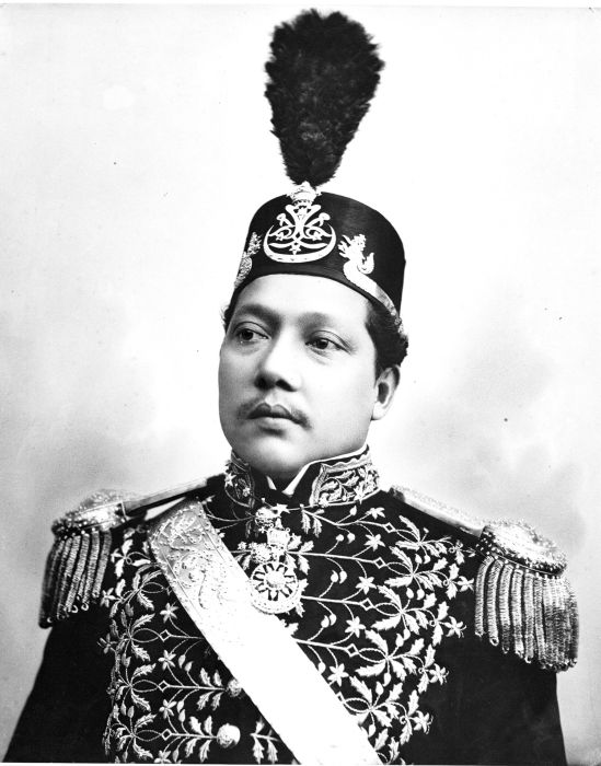 Sultan Hashim Abdul Jalil Muzaffar Shah, sultan of Siak in the East Coast of Sumatra